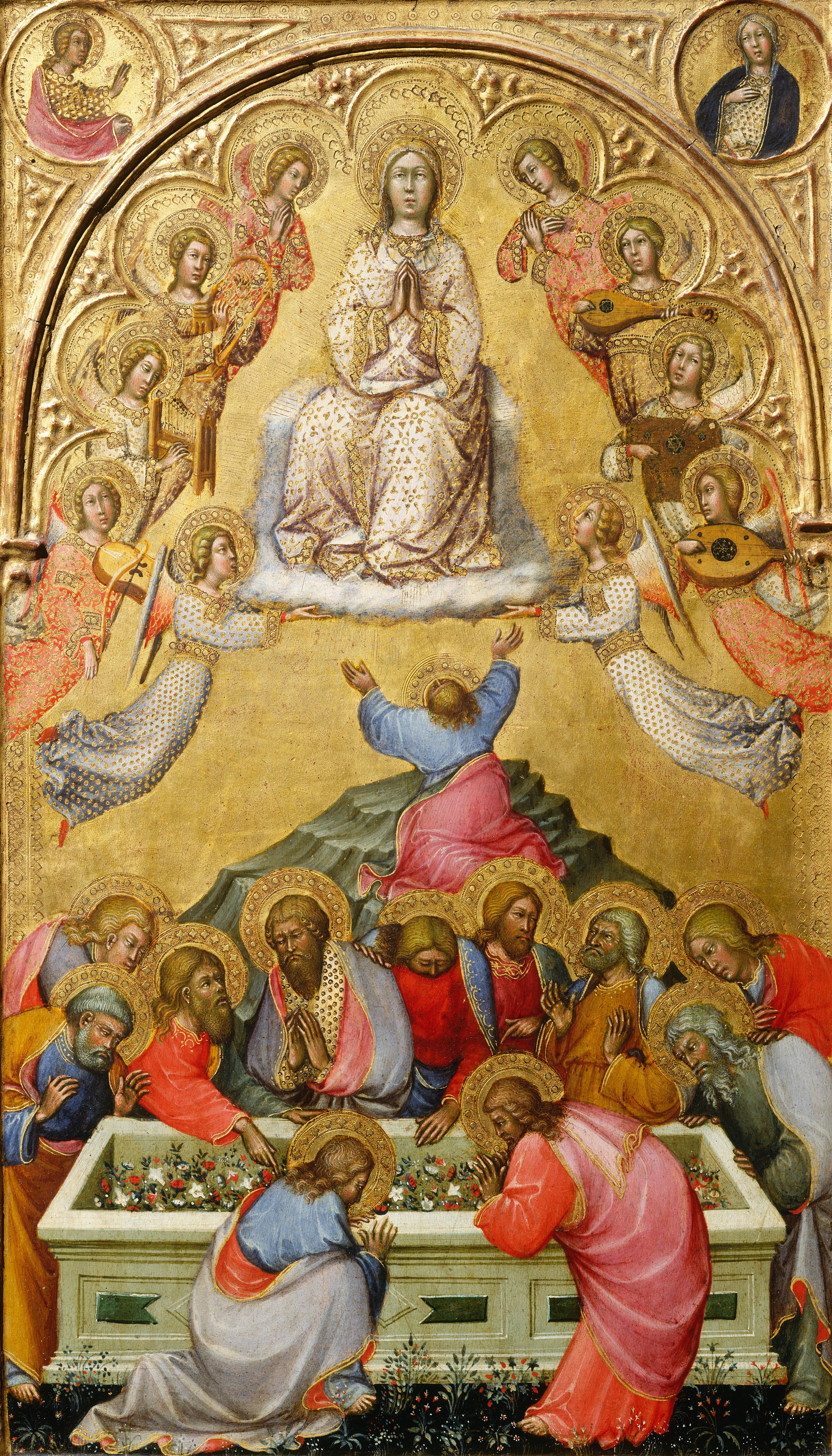 Assumption of the Virgin . National Gallery of Art, Washington, D. C., online collection